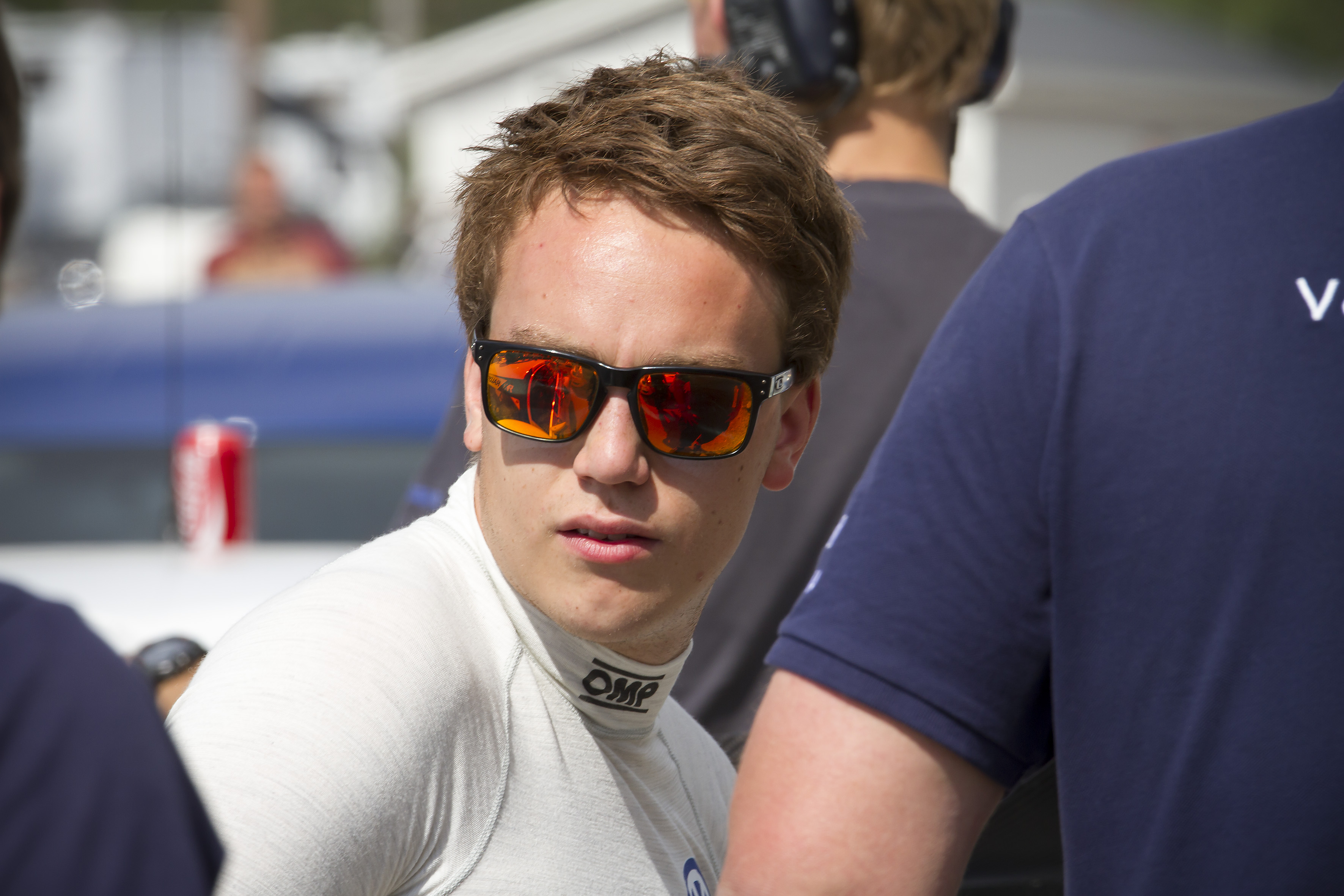 Norwegian rallycross driver Ole Christian Veiby at Round 5 of the 2014 FIA World Rallycross Championship, Höljes Motorstadion, Sweden.